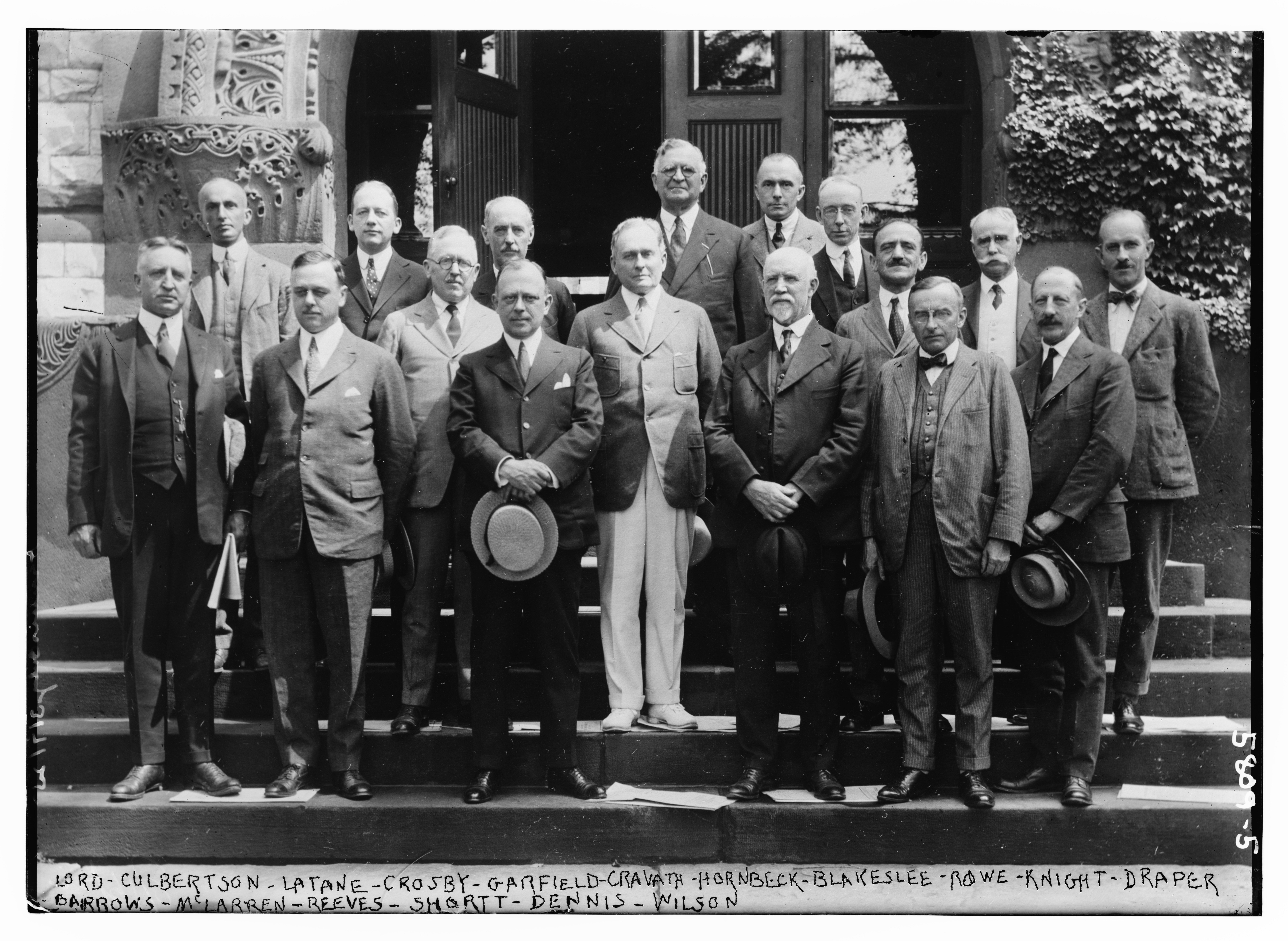 Title: Lord Culbertson, Latane, Crosby, Garfield, Cravath, Hornbeck, Blakeslee, Rowe, Knight, Draper, Barrows, McLarren, Reeves, Shortt, Dennis, Wilson Abstract/medium: 1 negative : glass ; 5 x 7 in. or smaller.